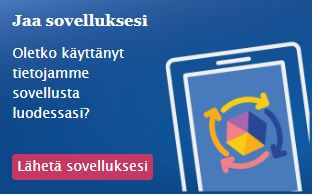 Screenshot from EUODP